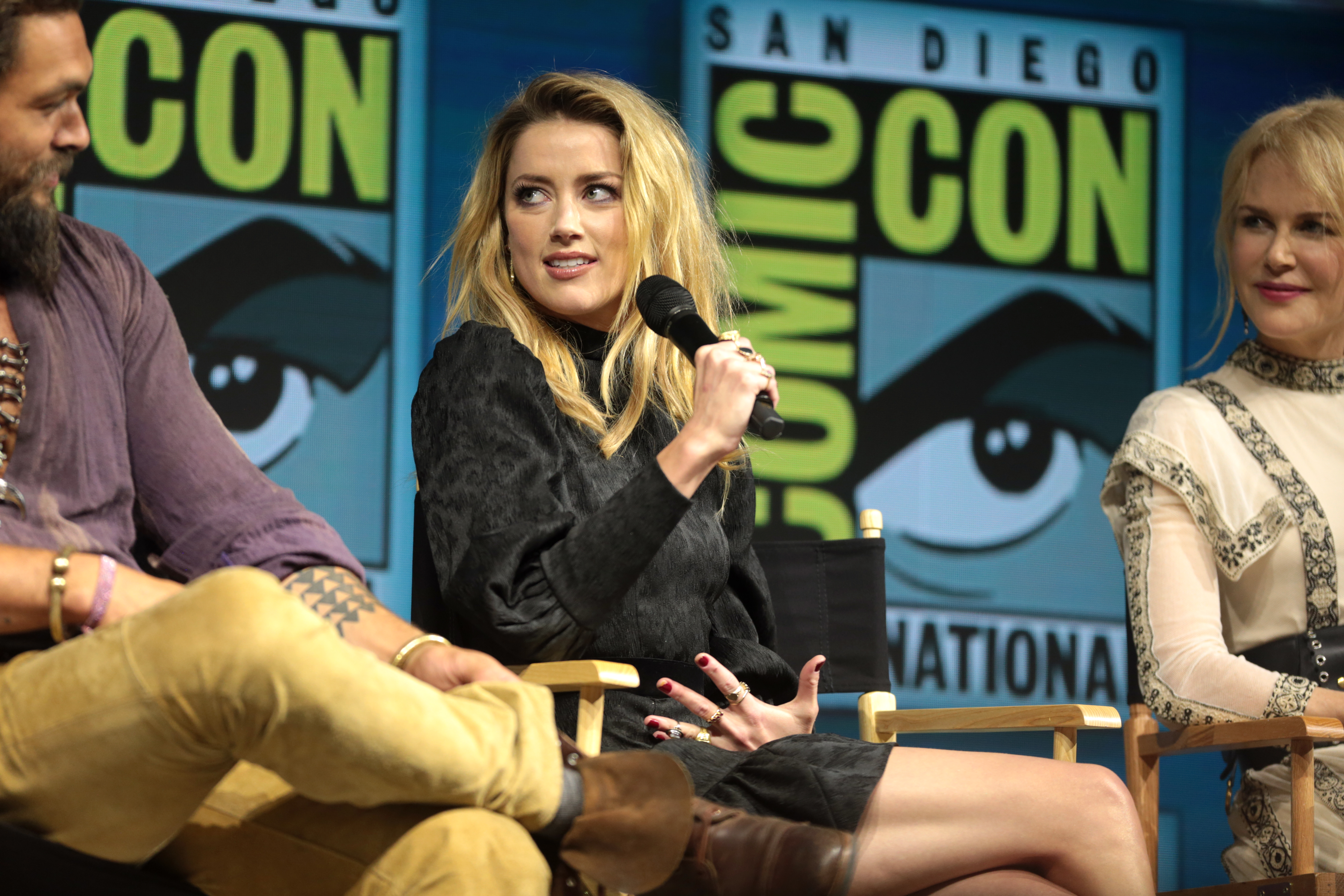 Amber Heard speaking at the 2018 San Diego Comic Con International, for "Aquaman", at the San Diego Convention Center in San Diego, California.